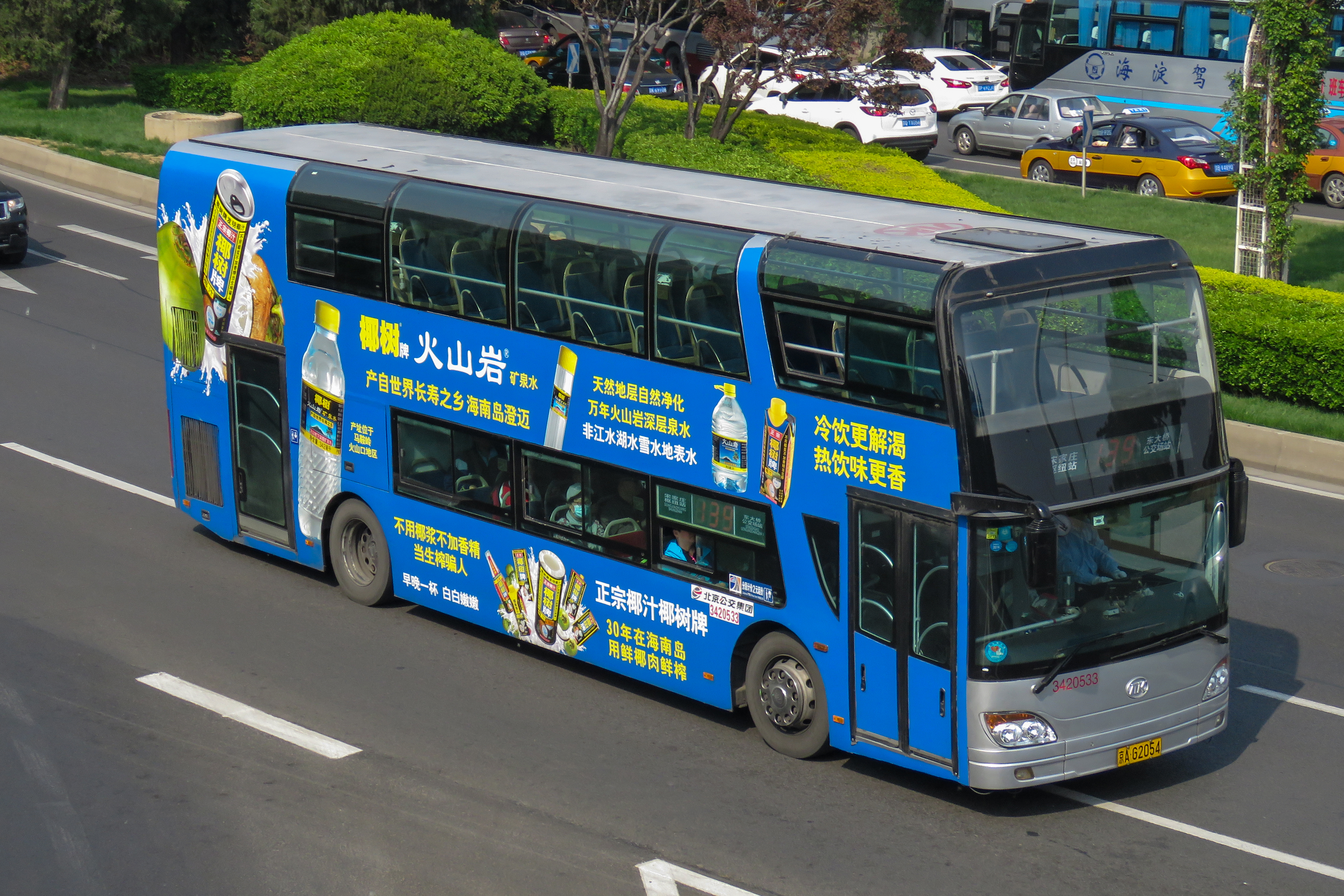 Seen with Coconut Palm advertisement.